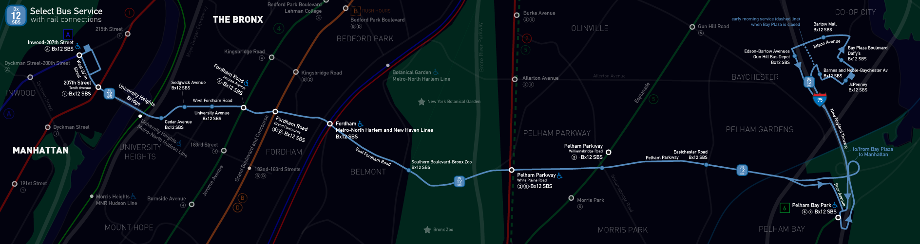 A geopraphically correct map of the 207th Street Crosstown Line, better known as the Bx12 bus in New York City. Created by myself in Adobe Illustrator. NOTE: Those who would like a SVG copy of this map can request one through email. I would have uploaded a SVG file, but I am expreiencing font issues.